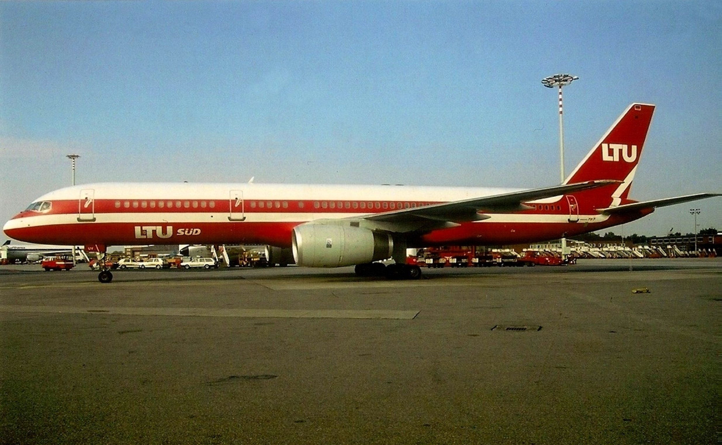 LTU-Süd Boeing 757 D-AMUV in Hamburg